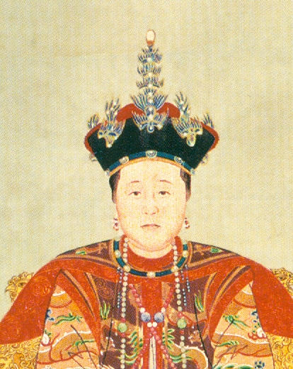 This is a detail of "Portrait of Consort Zhuang in court costume" (莊妃朝服像) painted on a paper scroll (92 x 53 cm), which represents Bumbutai (1613–1688), a Khorchin Mongol of the Borjigit clan who was one of the wives of Hong Taiji (1592–1643), the second emperor of the Qing dynasty. Named "Consort Zhuang" in 1636, she became empress dowager when her five-year-old son Fulin succeeded Hong Taiji as the Shunzhi Emperor in 1643. She is known posthumously as Empress Dowager Xiaozhuang.